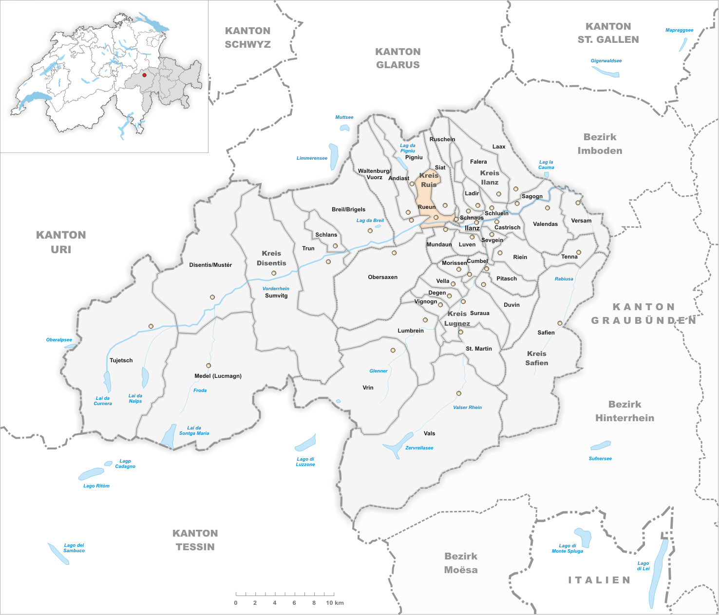 Municipality Rueun